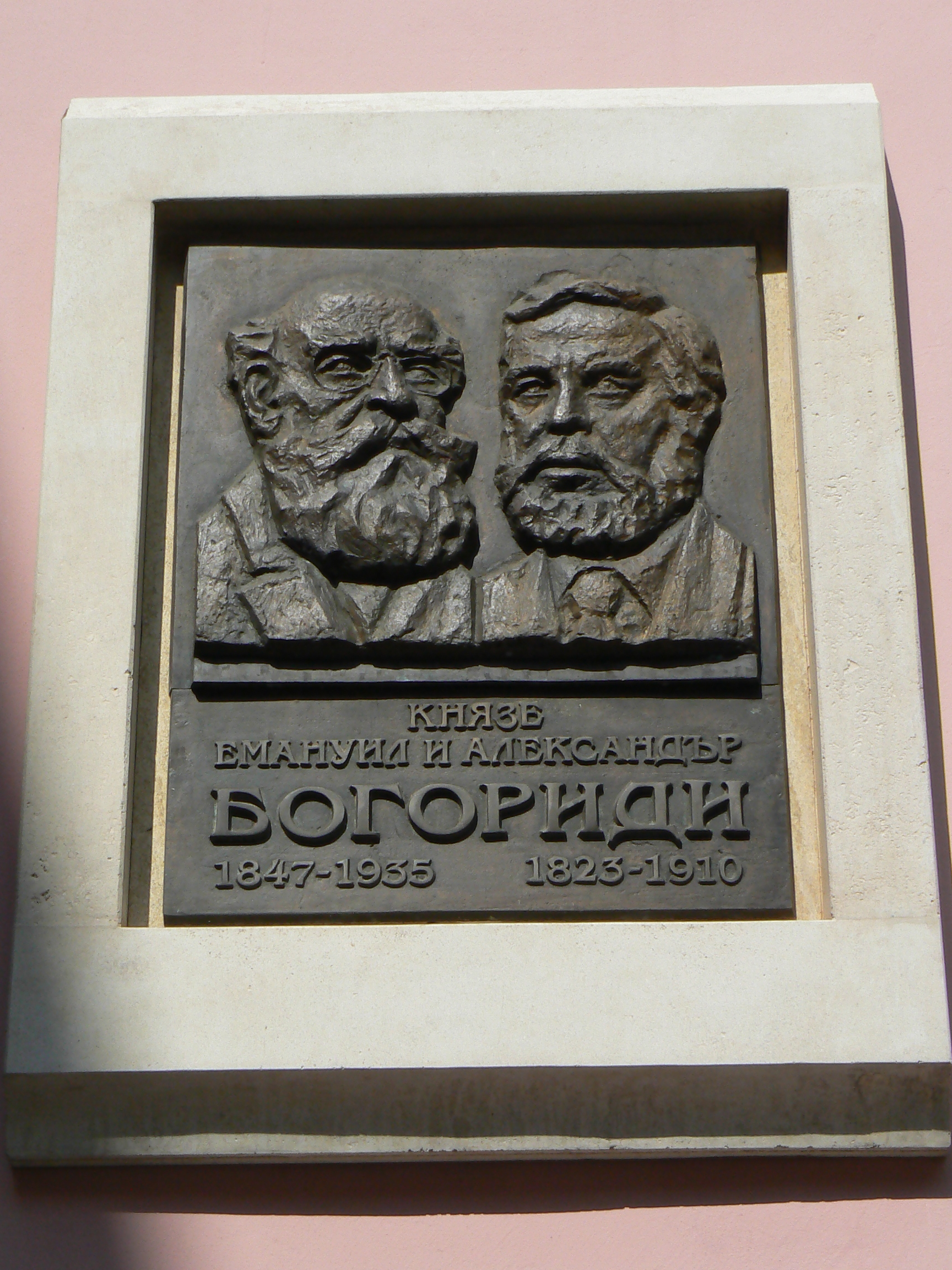 Basrelief with the images of Emanuil and Alexander Bogoridi. On the wall of Library "Yavorov" on "Bogoridi" Street, Burgas, Bulgaria